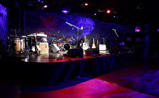 This is a promotional photo of the venue that I have taken and can be used by whomever.